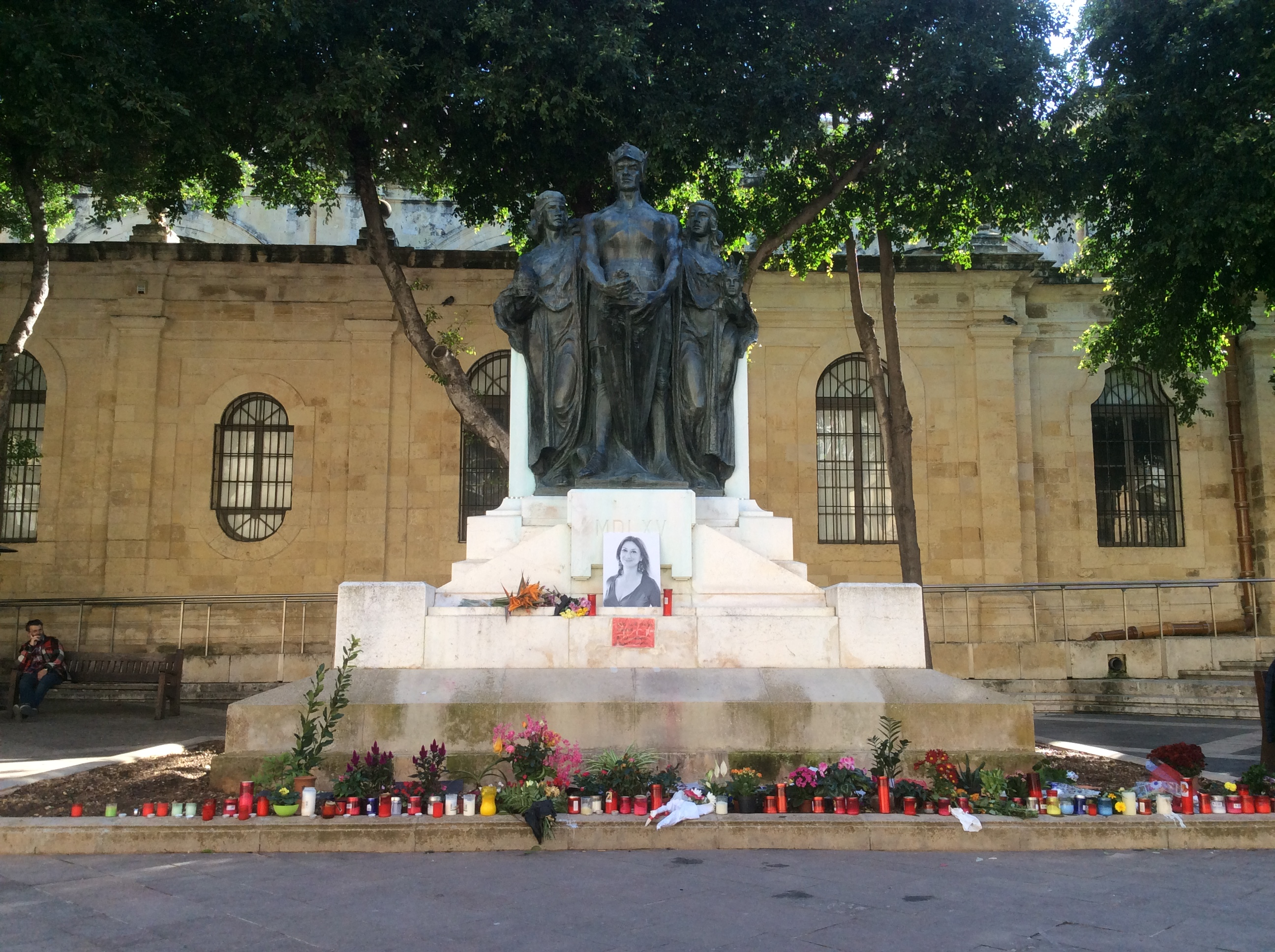 Great Siege Monument and temporal Daphne Caruana Galizia Monument